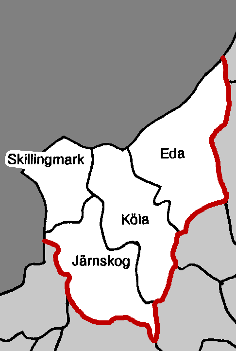 old municipalities of Eda